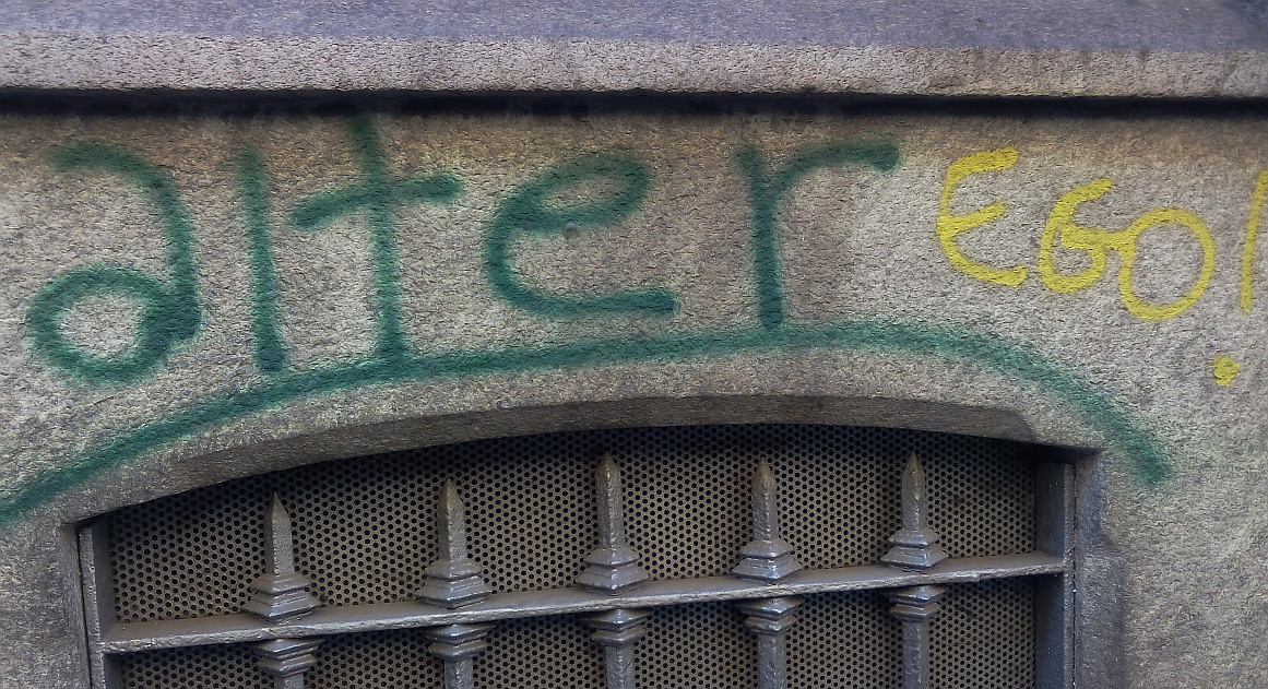 alter EGO! graffiti in Turin (Italy)